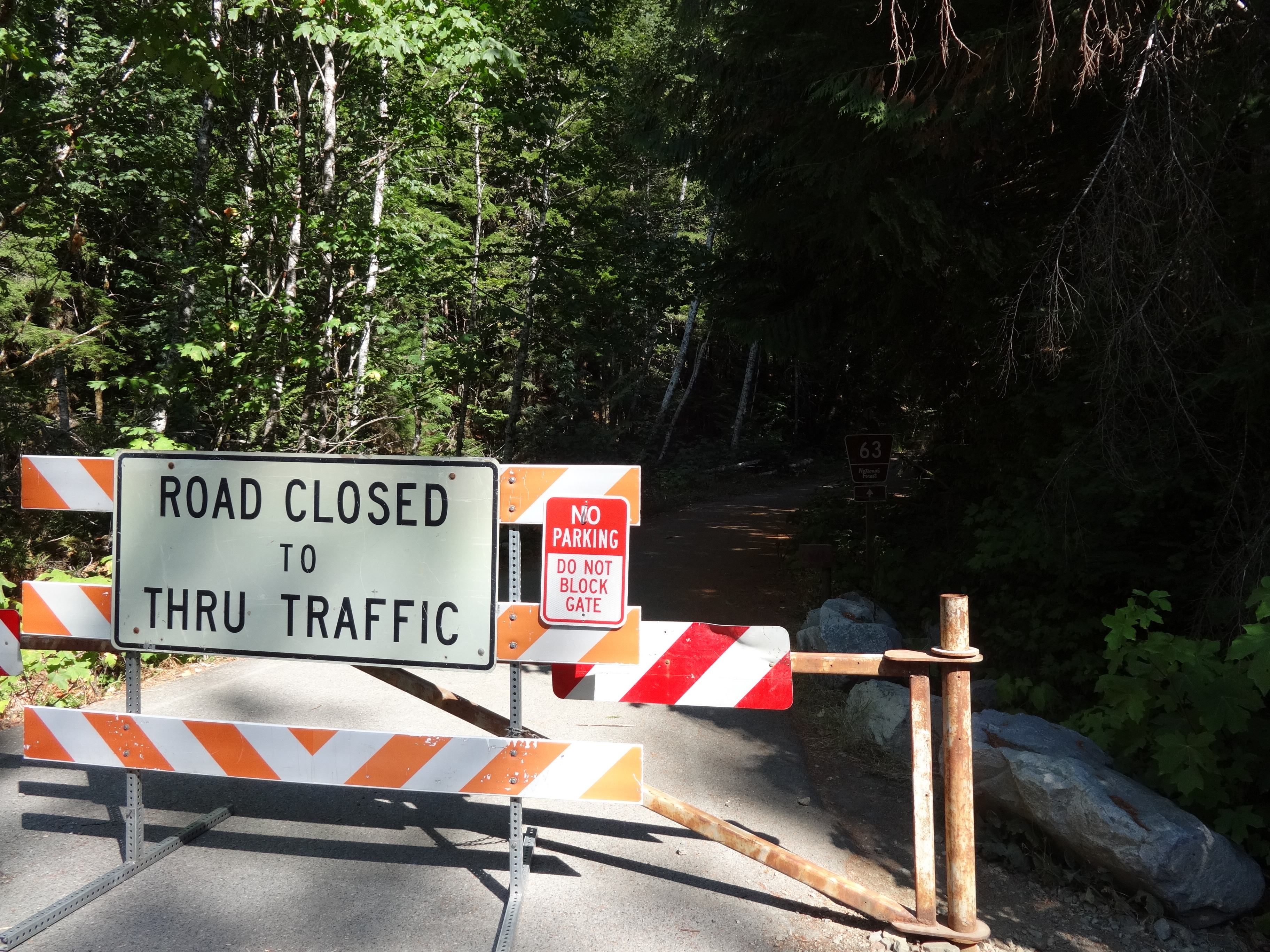 Road to Blanca Lake Trailhead inaccessible. Adds 2 miles to hike.